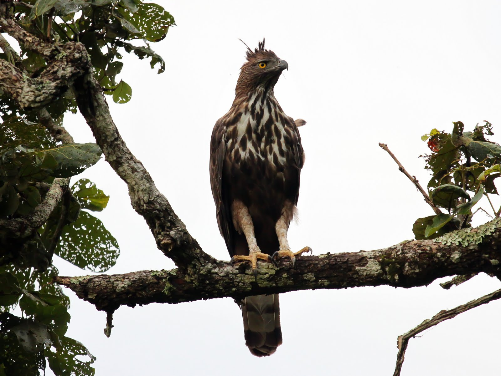 Crested Hawk Eagle